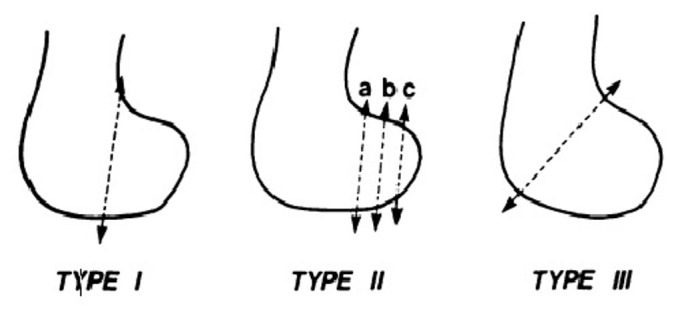 Hoffa fracture classification of lateral femoral condyle Letenneur (1978)